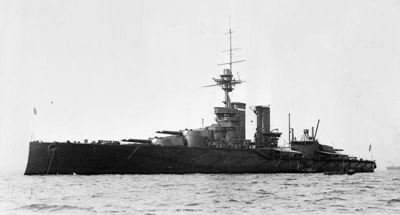 The battleship HMS Centurion at anchor, about 1914